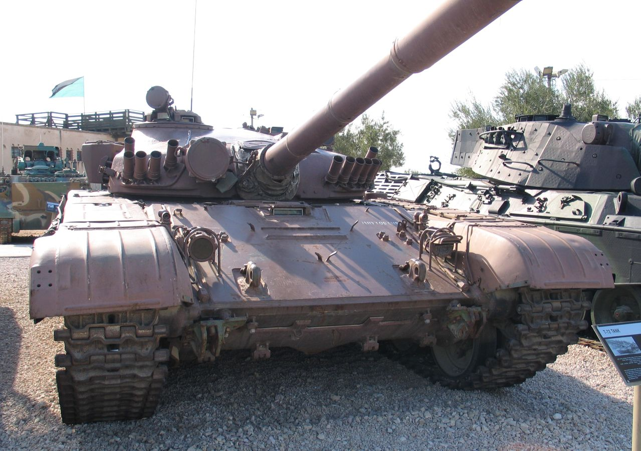 Description: T-72 MBT in Yad la-Shiryon Museum, Israel. Source: Photo by me, User:Bukvoed